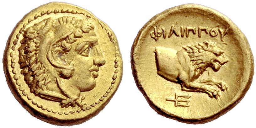 Kings of Macedonia, Philip II 359 – 336 and posthumous issues. Half stater, Pella, circa 348-328, AV 4.30 g. Head of young Heracles r., wearing lion’s skin. FILIPPOU Lion’s forepart r.; below, trident head r. SNG ANS 217 (these dies). Le Rider 43. Very rare and in exceptional condition for the issue. Good extremely fine. NAC59, 555